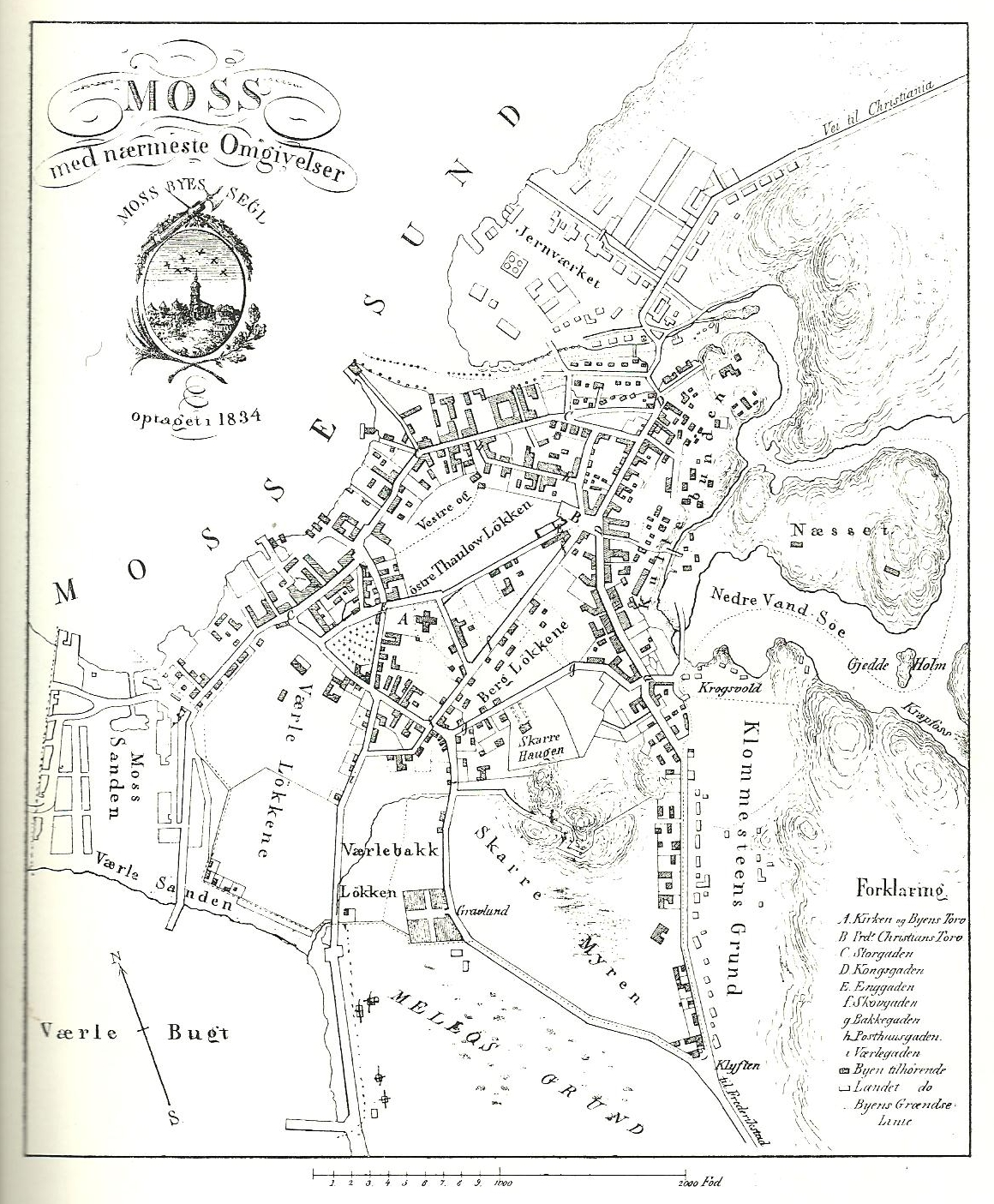 Map of the city of Moss, Norway, dated 1834, scanned from the book Moss Jernverk, by Lauritz Opstad, published 1950